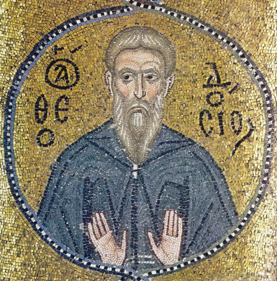 Theodosius the Cenobiarch